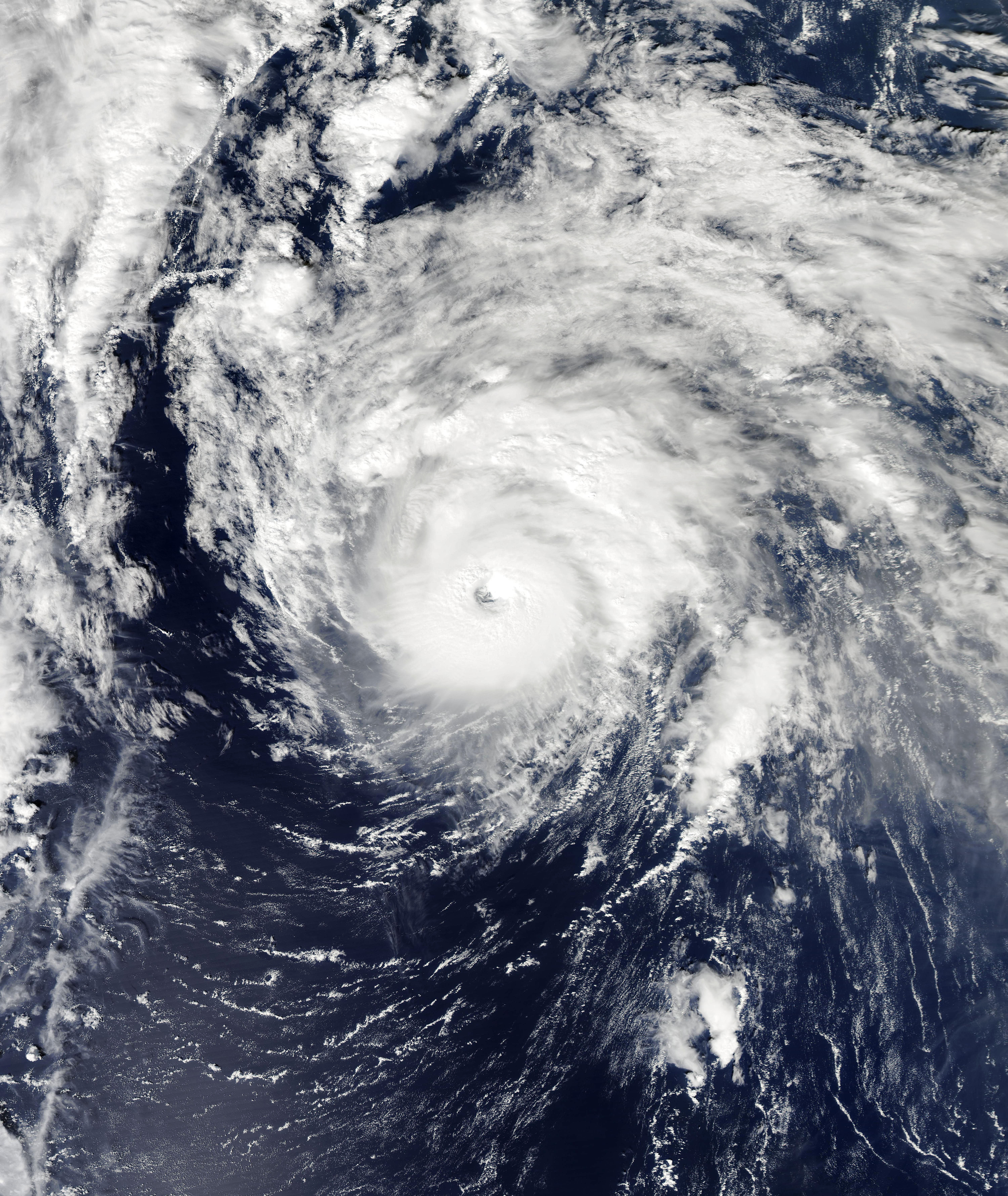 Hurricane Ophelia on October 1, 2011, as a category three hurricane.